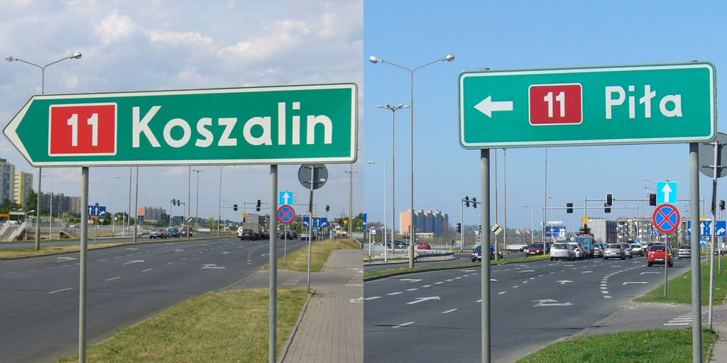 Change over direction town names of Polish road signs (National road No. 11 in Poznań)